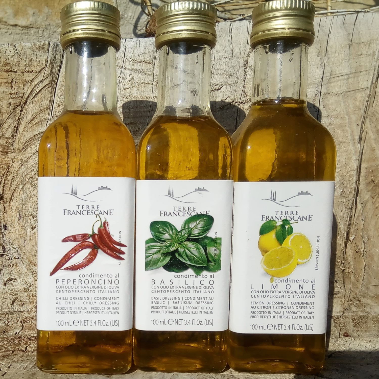 Bottles of flavored olive oil with various spices, hot pepper, basil and lemon.